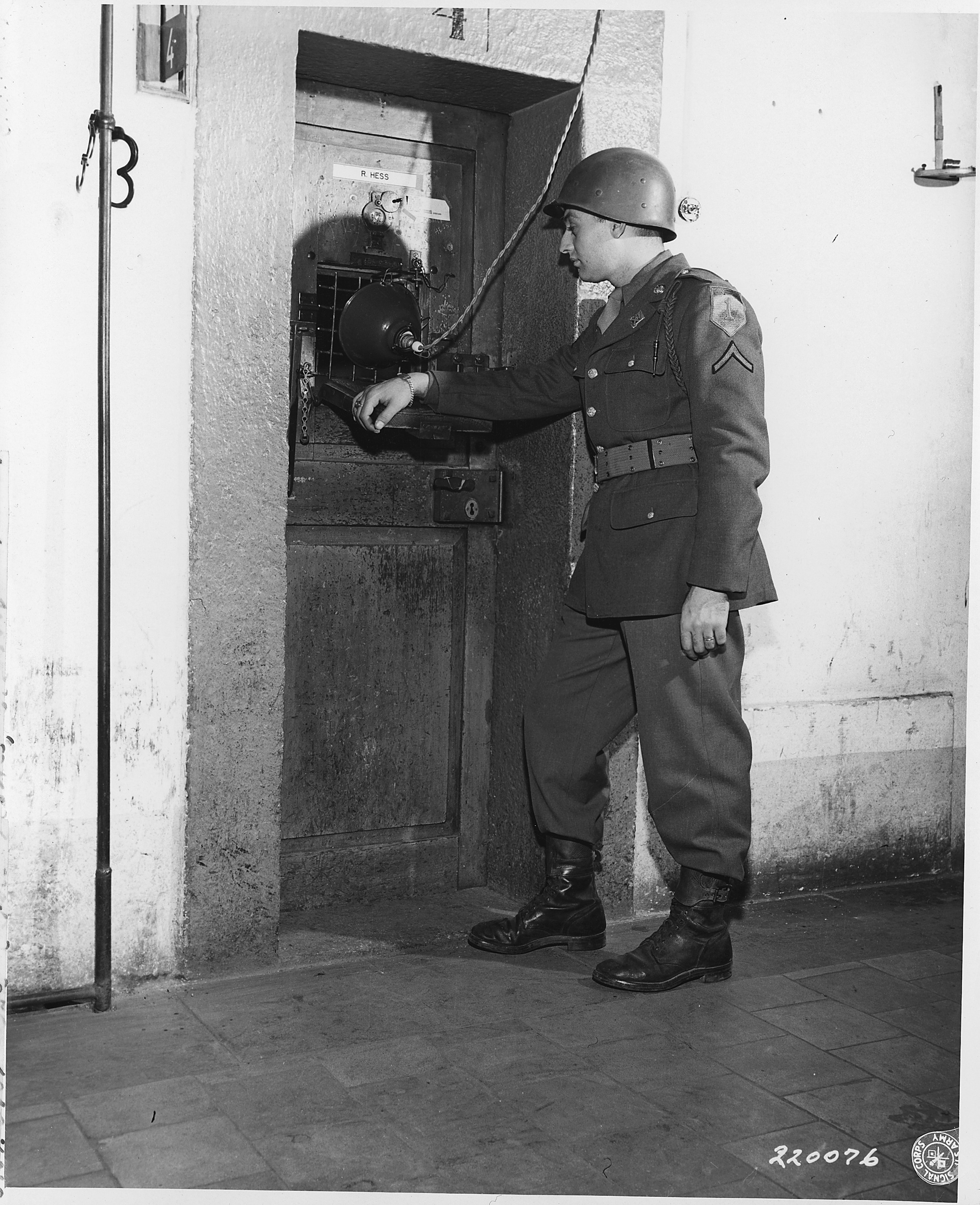 Scope and content: The door to Rudolf Hess' cell at Nuernberg city jail is guarded constantly, primarily to thwart any attempt at suicide. The guard here is Pfc. Joseph L. Pichierre, of Towanda, Penn., with the 18th Regt., 1st Inf. Div. Germany. 11/24/45.